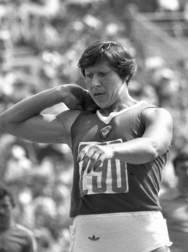 “1980 Summer Olympics Champion Nadezhda Tkachenko”. 1980 Summer Olympics Champion Nadezhda Tkachenko ( Women's Pentathlon, 16 m 84 cm) during a shot-put tournament at Moscow's Lenin Stadium.